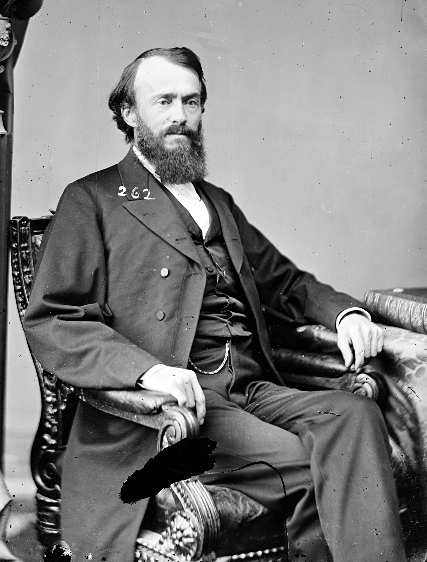 Willard Warner, Union Army General and US Senator from Alabama